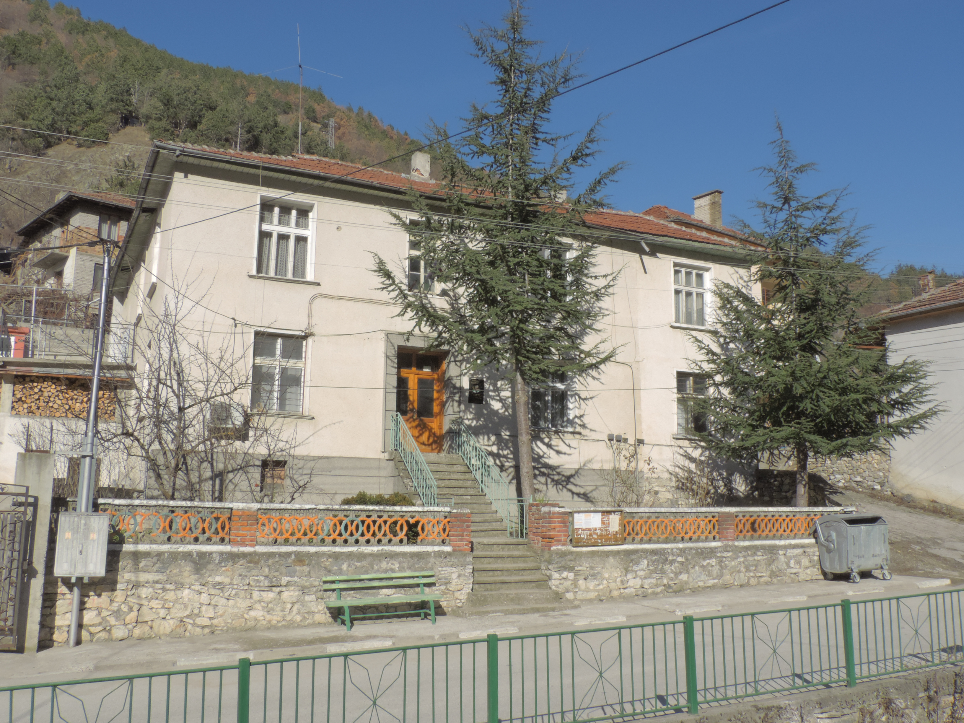 Village Mihalkovo, Devin Municipality, Smolyan Province, Bulgaria. The building of the mayor's office.